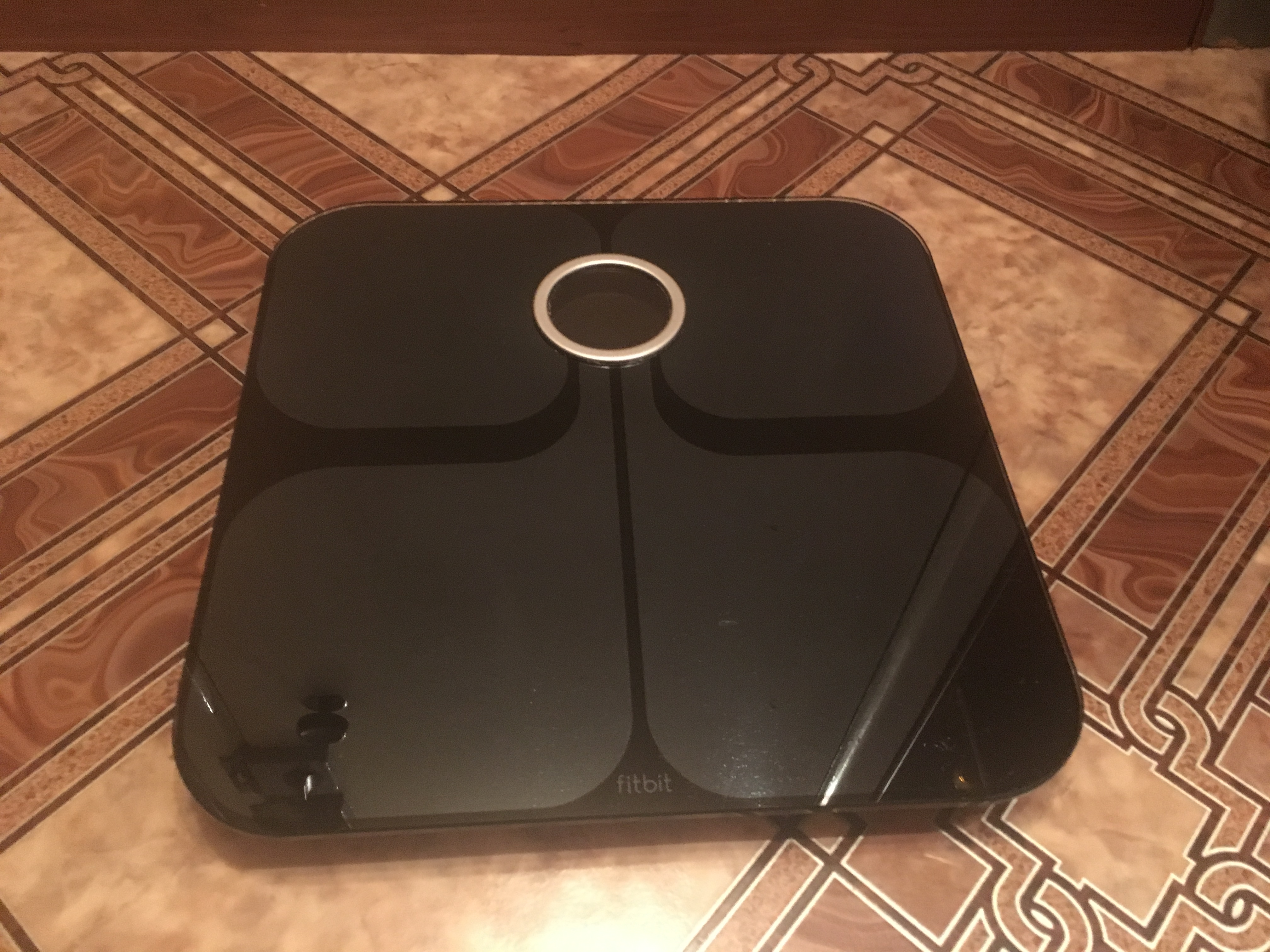 Smart Scale Fitbit Aria (Black)